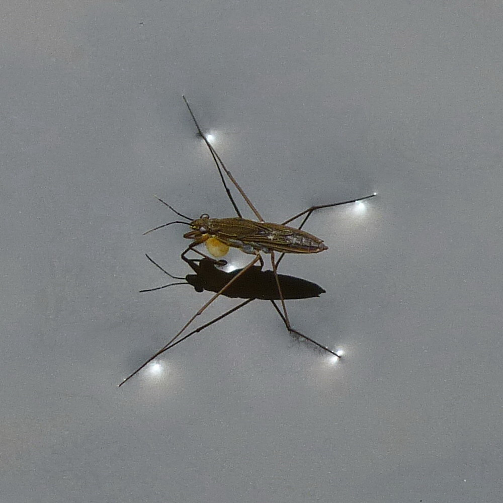 Water strider